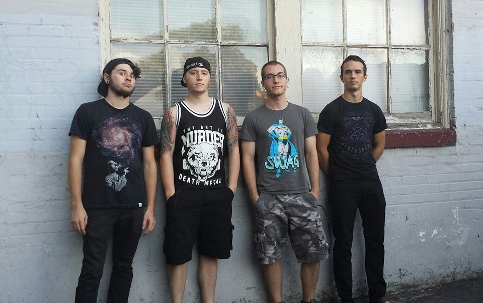 Ringsofsaturnband.jpg